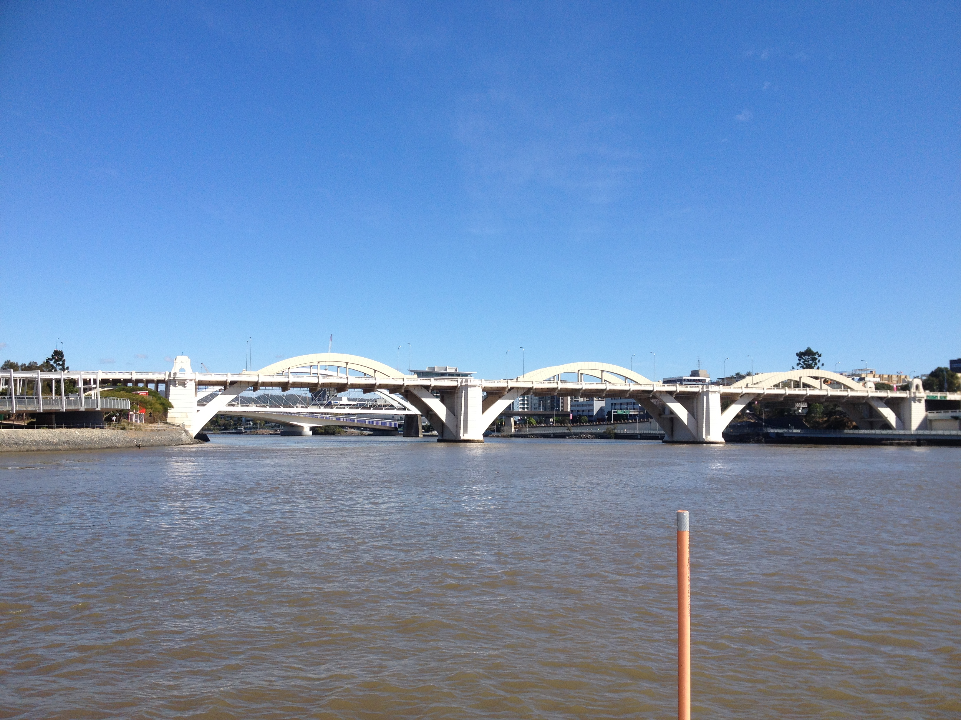 William Jolly Bridge, Brisbane seen from the CityCat.